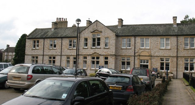 The Friary Hospital, the community hospital of Richmond, North Yorkshire, seen from the east